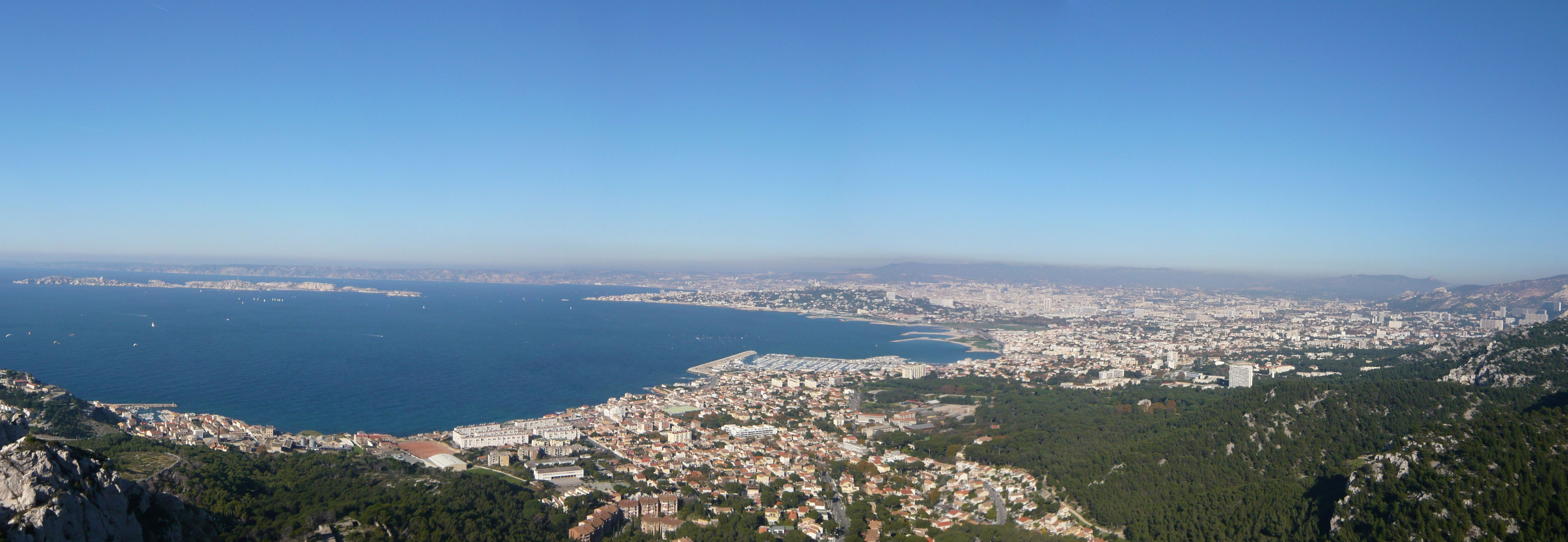 Pnaorama from the Beouveyre above the city of Marseille